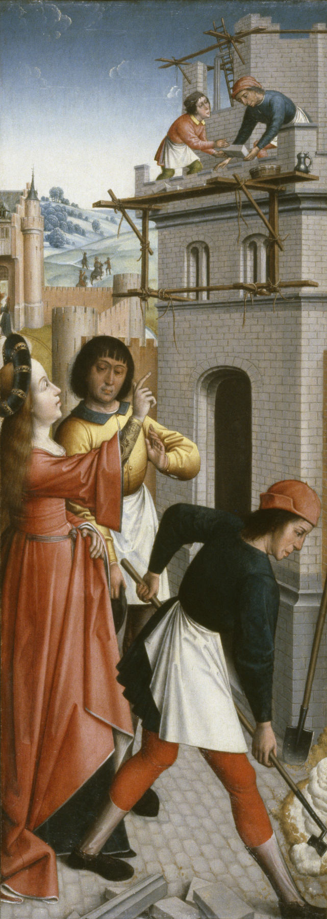 The main source for the life of St. Barbara is the "Golden Legend (Legenda Aurea)," a 14th-century compilation of stories associated with the feast days of the Church calendar. In the early 4th century, at a time of persecution of the Christians, Barbara, a beautiful virgin, was said to have been hidden away in a tower by her pagan father in order to keep away suitors. Without his knowledge, she converted to Christianity. She then had a third window added to her tower as a sign of her belief in the Trinity. Her father learned of her conversion and chopped off her head. Soon after, he was killed by lightning. Barbara became the patron saint of those in danger of sudden death, such as soldiers and firefighters. This panel, which depicts a key moment in her legend, was the wing of an altarpiece dedicated to the saint. To make the story persuasive, the artist introduced historical as well as contemporary details. The tower was made to look Roman (to contemporary viewers who had never seen Roman architecture) by introducing windows characteristic of Romanesque architecture. Barbara's elegant attire and loose hairstyle would both have been recognizable to contemporaries as those of an unwed maiden. That her long hair is swept out of the way to bare her neck for execution is also a poignant reminder of her vulnerability. The artist cannot be identified by name, but the style, featuring large, active figures close to the picture surface, is that of a series of paintings depicting the story of Joseph now in museums in Germany.